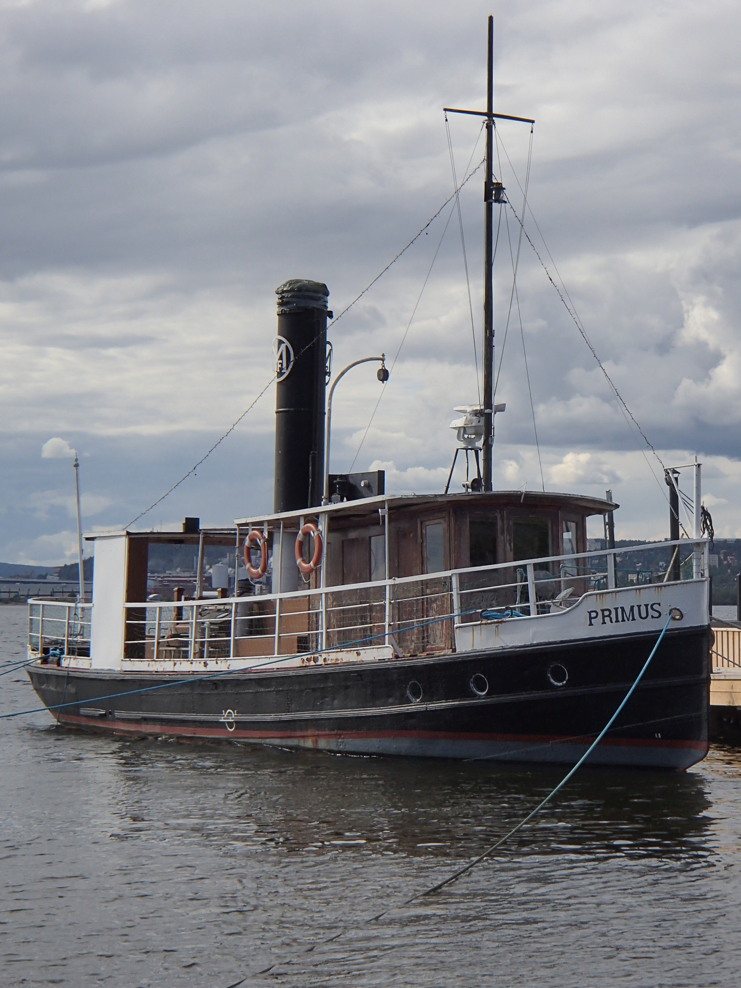 Tugboat S/S Primus in Sundsvall, at Karlsvik This is an image of a protected Swedish ship, with call sign SJKQ .